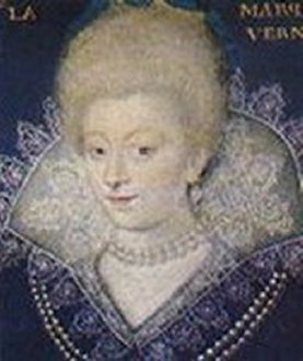 Portrait of Henriette d'Entragues, mistress of Henry IV of France